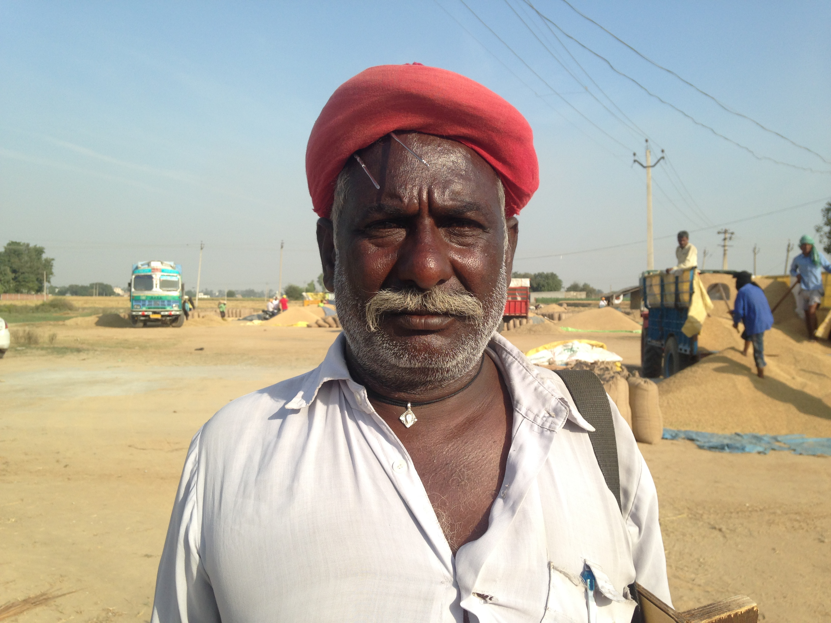 Punjabi Ear Cleaner at Sehora, Punjab.